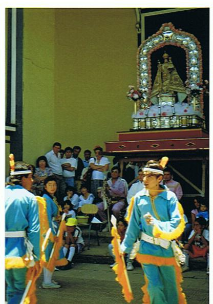 Image of the "Virgen del Rosario" (virgin of the rosary), with silver decorations, at Andacollo, province of Coquimbo, Chile